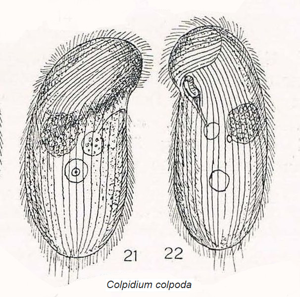 An illustration of the ciliate Colpidium colpoda, from Alfred Kahl's Wimpertiere oder Ciliata.